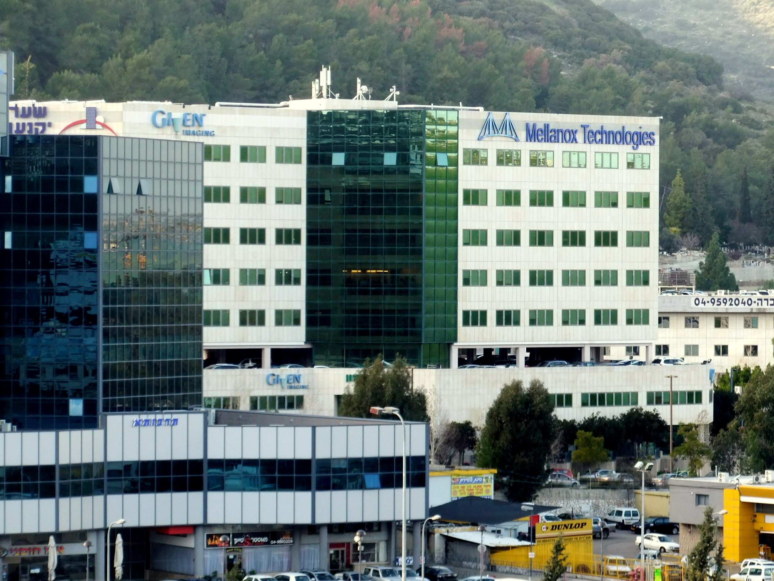 Mellanox building in Yokneam industrial area